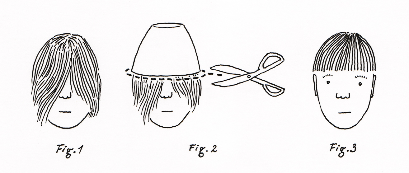 Illustration: Bowl cut